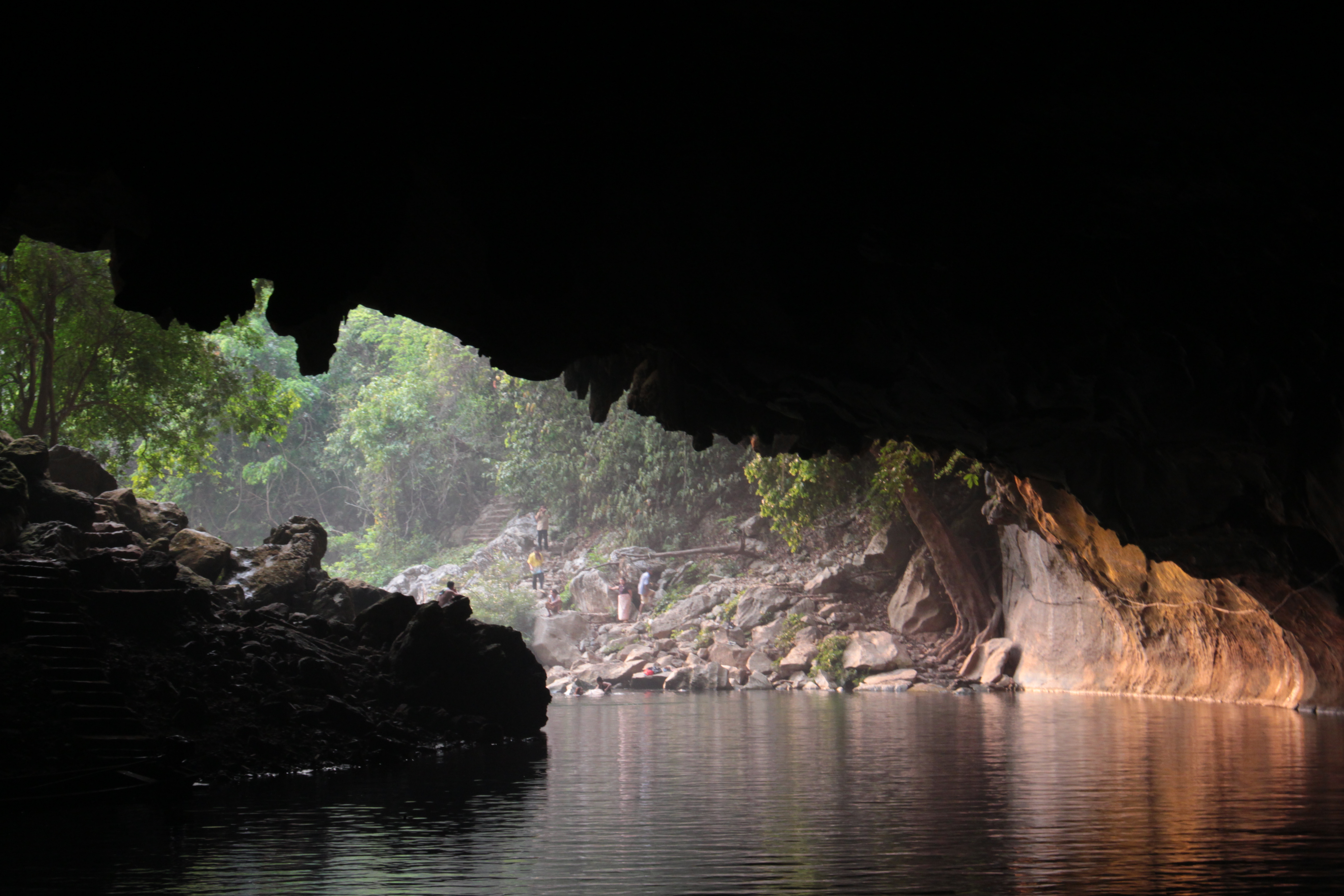 Tham Kong Lo in March 2015; northernwest exit from inside.